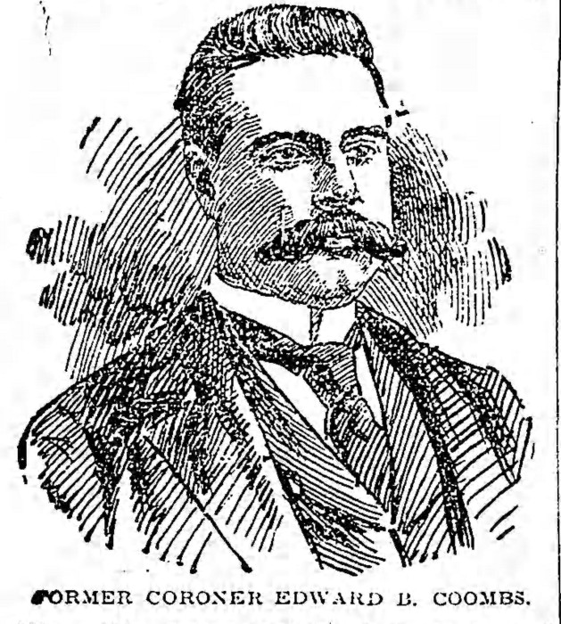 Edward Butler Coombs (1862-1910) in the Brooklyn Eagle in 1899